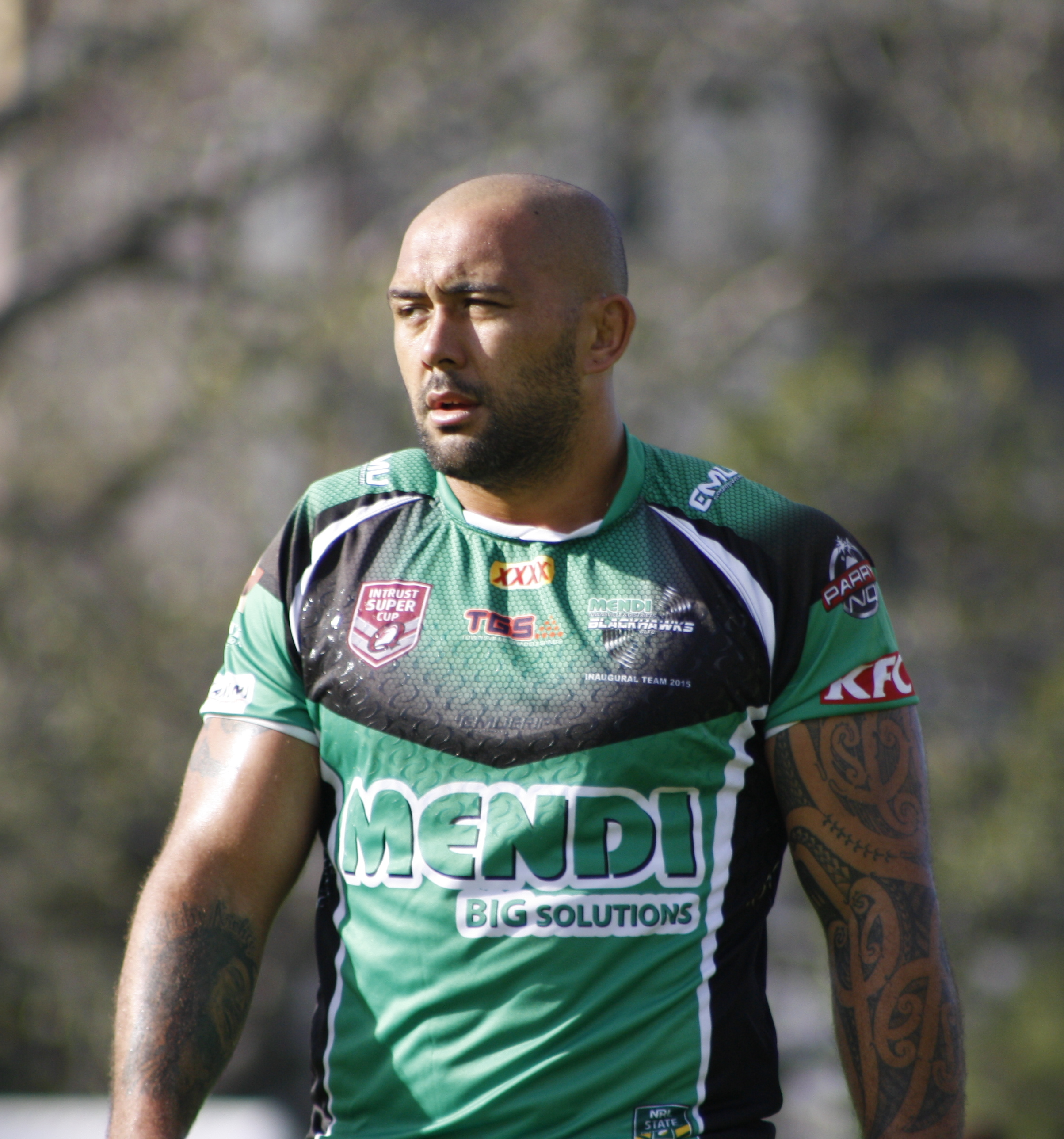 Ricky Thorby. Souths vs Townsville 12 April 2015, Intrust Super Cup, Davies Park